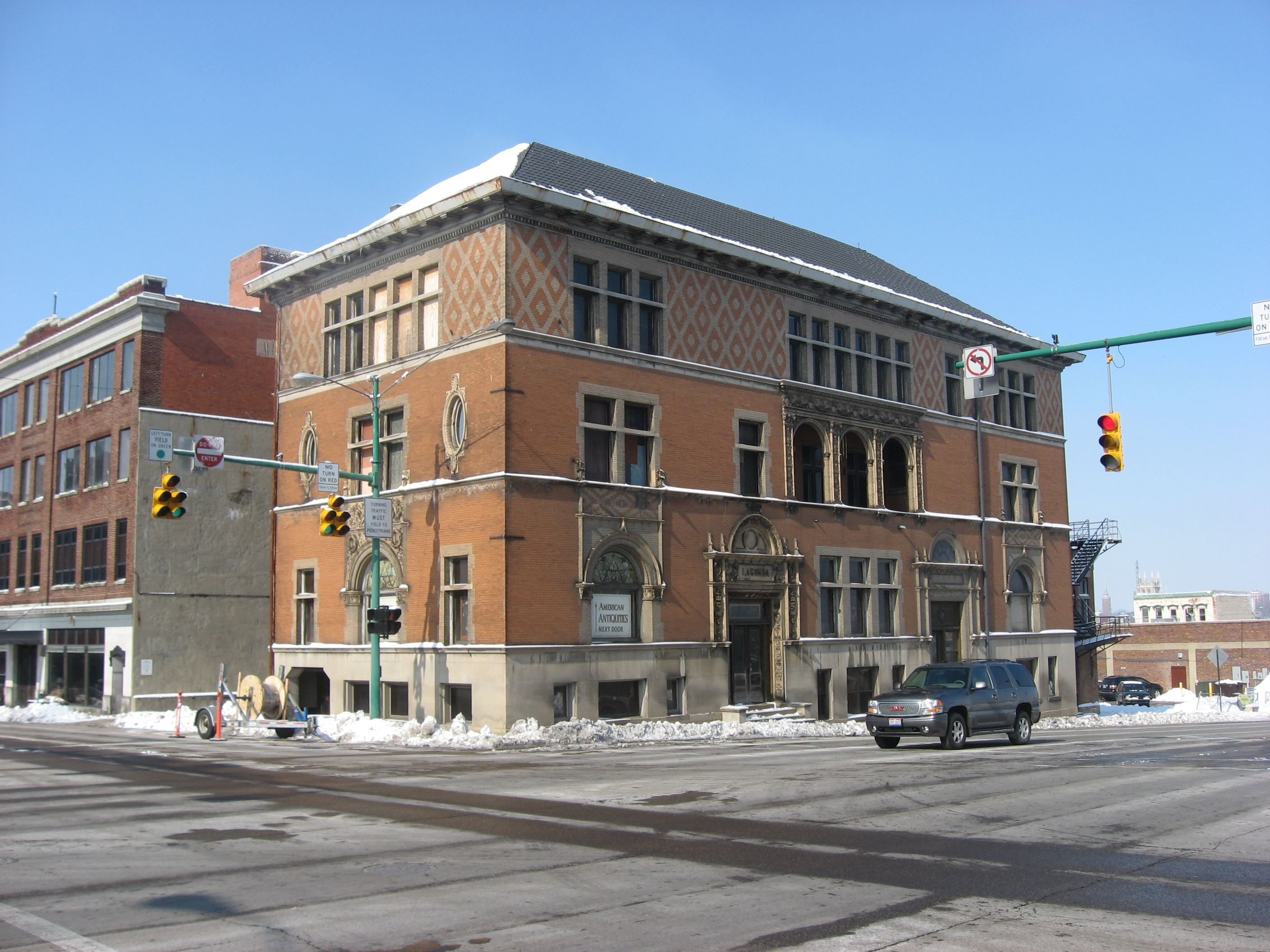 Front and southern side of the former Lagonda Club Building, located on the northwestern corner of the intersection of Spring (State Route 72) and High Streets in downtown Springfield, Ohio, United States. After the club ceased to use the building, it served as the offices for the local chamber of commerce, and it has since converted into an antique shop. Built in 1895, it is listed on the National Register of Historic Places.